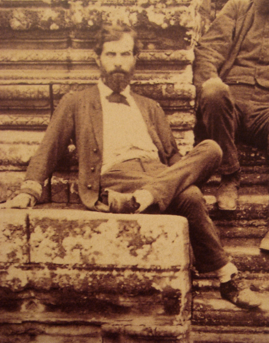 Ernest Doudart de Lagrée_Angkor_Vat_1866. Note : this is NOT Francis Garnier, the picture name is erroneous. See